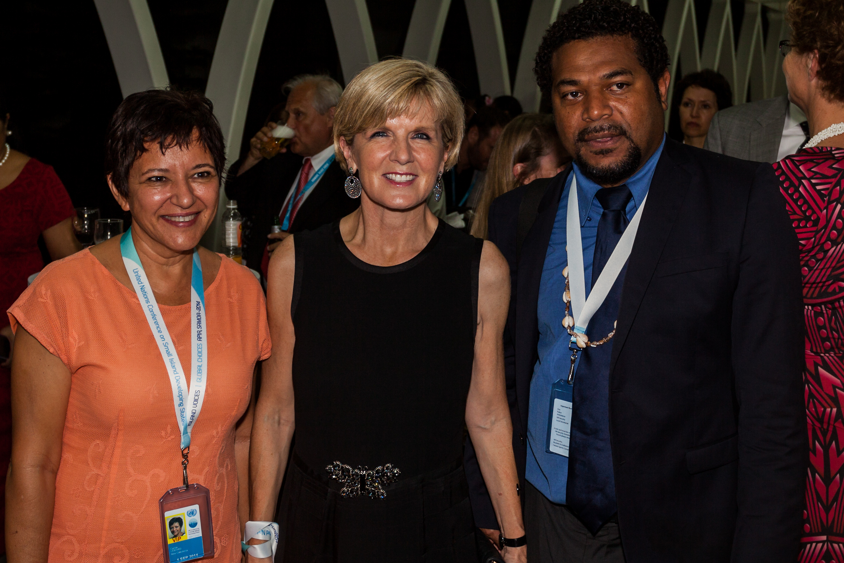 New Caledonia President Cynthia Liegard (left), Australian Foreign Minister Julie Bishop (center) and New Caledonia Environment Minister Anthony Lecren (right) at the UN Small Islands Developing States conference (SIDS) in Samoa in August 2014.